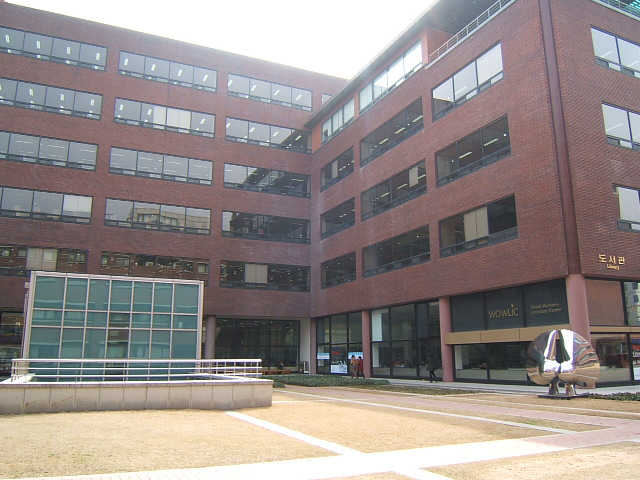 Main Library at Sookmyung Women's University